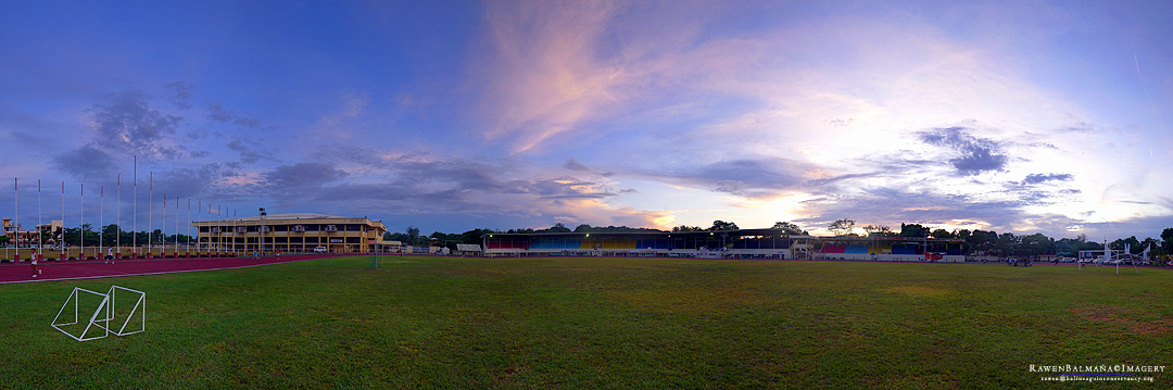 Panorama of the Villareal Stadium in Roxas, Capiz